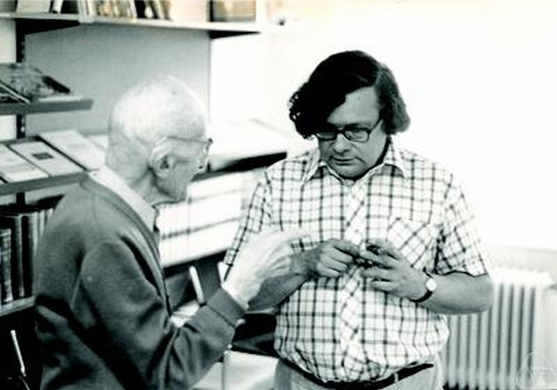 Antonius van de Ven (right) with Otto Haupt, Erlangen 1977